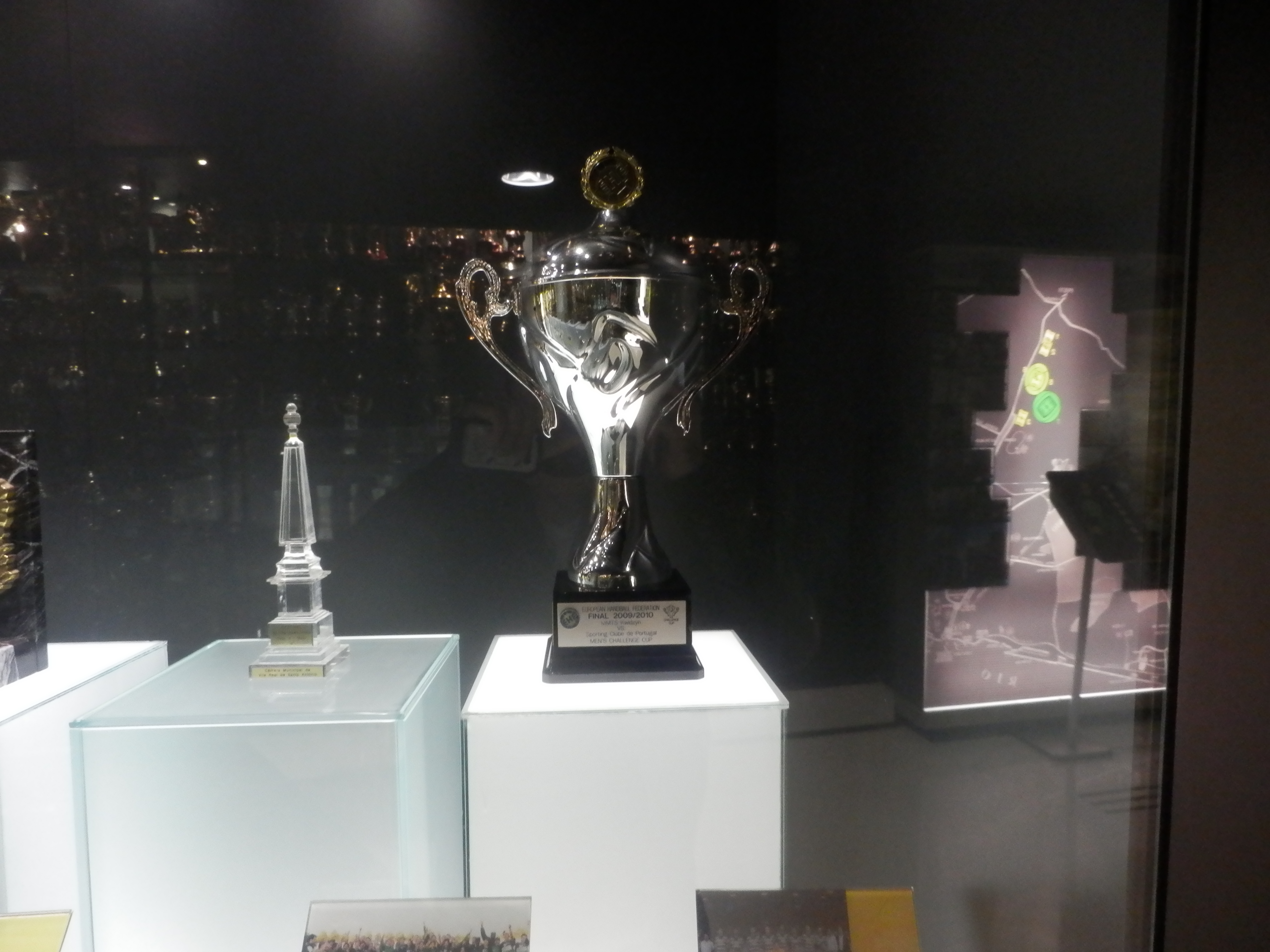 The 2009-10 EHF Challenge Cup won by Sporting.